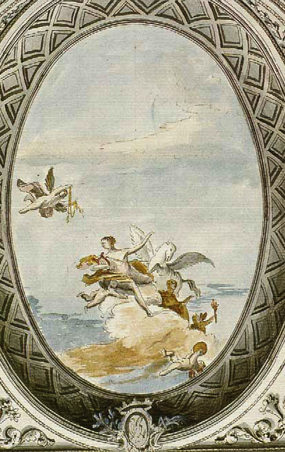 Watercolour depiction (circa 1800) of a ceiling fresco in the Teatro San Moisè, Venice, Italy. (The theatre closed in 1818 and was torn down in the mid 19th century). Current location: Collezione Giustiniani, Venice. Source: Center for Italian Opera Studies, University of Chicago